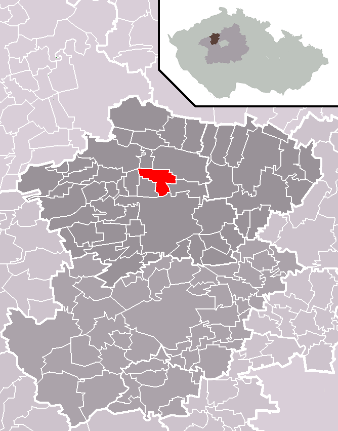 Location of Dřínov municipality within Kladno District and administrative area of Slaný as a Municipality with Extended Competence.